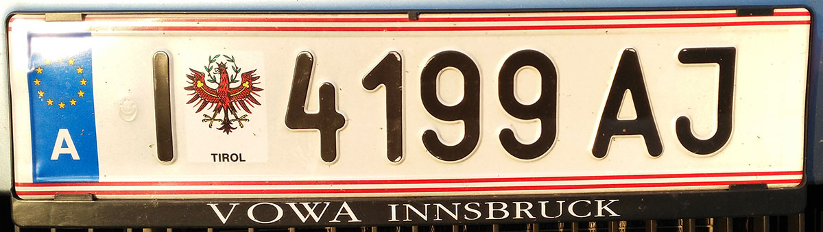 Austrian license plate. Innsbruck code.